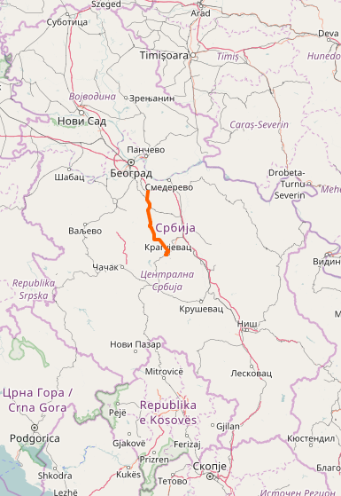 OpenStreetMap of State Road 25 in Serbia.